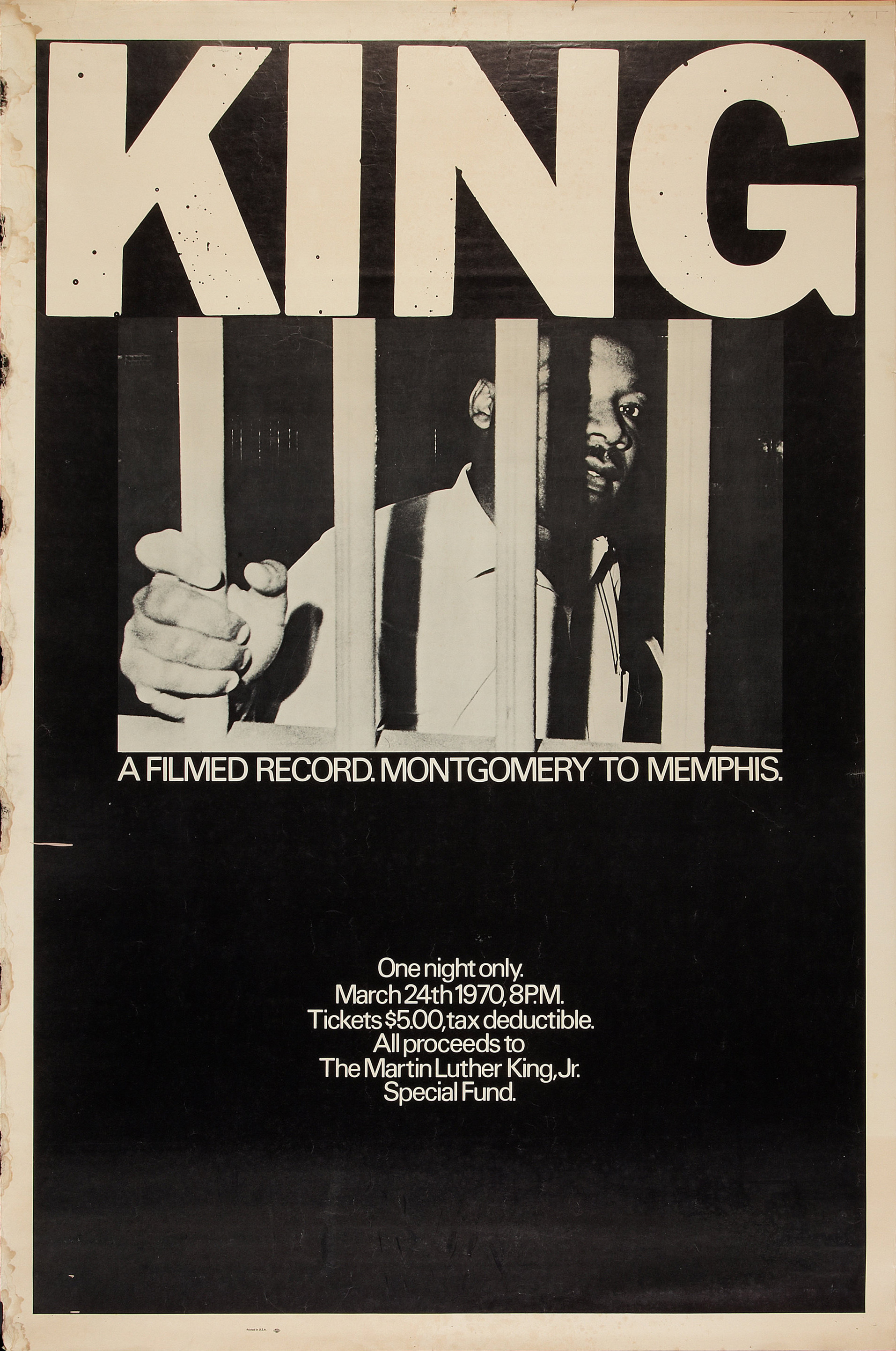 Theatrical release poster for the 1970 documentary film King: A Filmed Record... Montgomery to Memphis. The photo shows Martin Luther King Jr. in a jail cell on June 11, 1964, following his arrest on trespassing charges connected to the St. Augustine movement in St. Augustine, Florida. The poster caption reads: "One night only. March 24th 1970, 8 P.M. Tickets $5.00, tax deductible. All proceeds to The Martin Luther King, Jr. Special Fund."